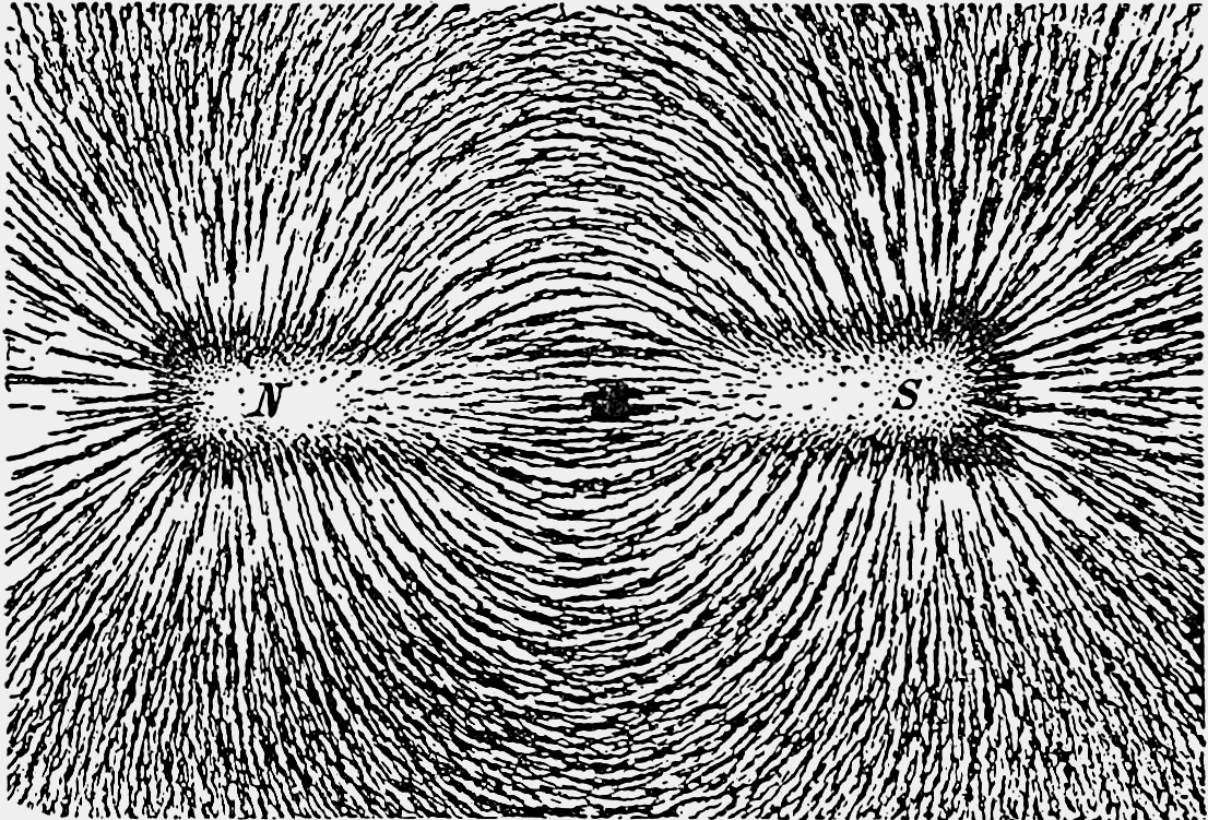 The magnetic field of a bar magnet revealed by iron filings on paper. A sheet of paper is laid on top of a bar magnet and iron filings are sprinkled on it. The needle shaped filings align with their long axis parallel to the magnetic field. They clump together in long strings, showing the direction of the magnetic field lines at each point.